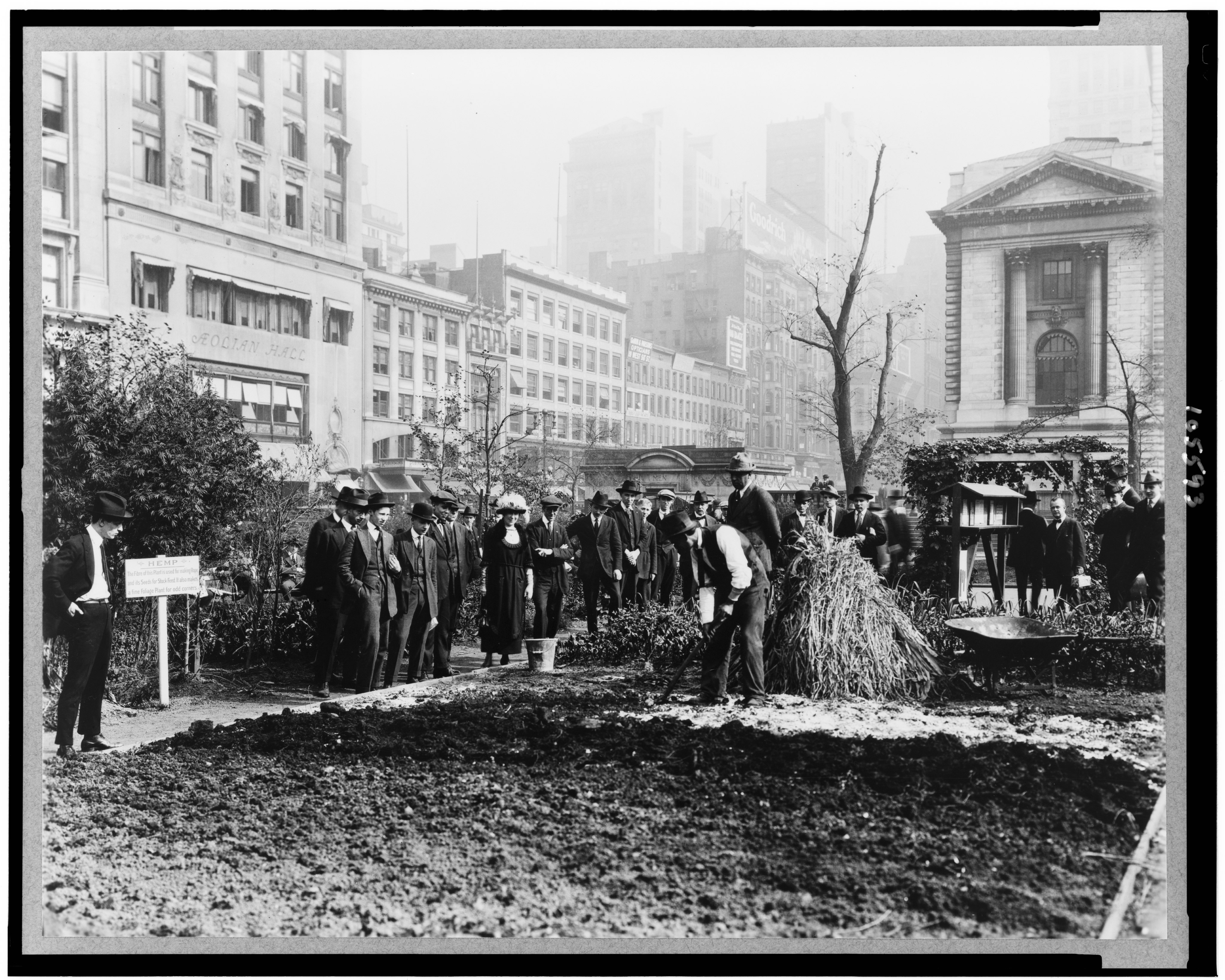 Title: City experiment in gardening, New York City Abstract/medium: 1 photographic print. Growing hemp in Bryant Park across 42nd Street from Aeolian Hall. Text on sign: "HEMP - The Fibre of this Plant is used for making Rope and its seeds for Stock Feed. It also makes a fine Foliage Plant for odd corners."